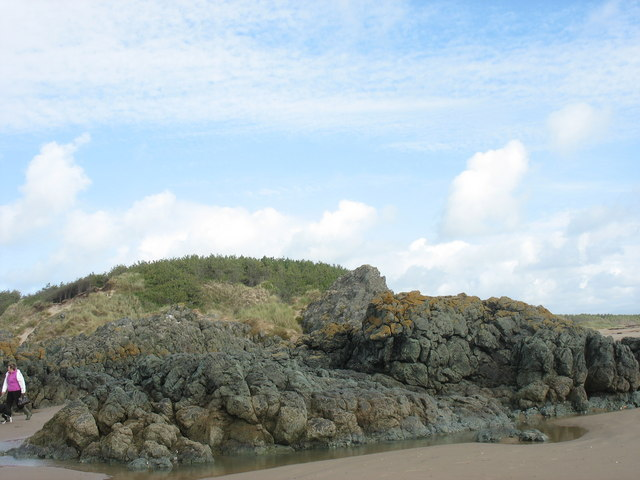 Pillow Lava at Gwddw Llanddwyn